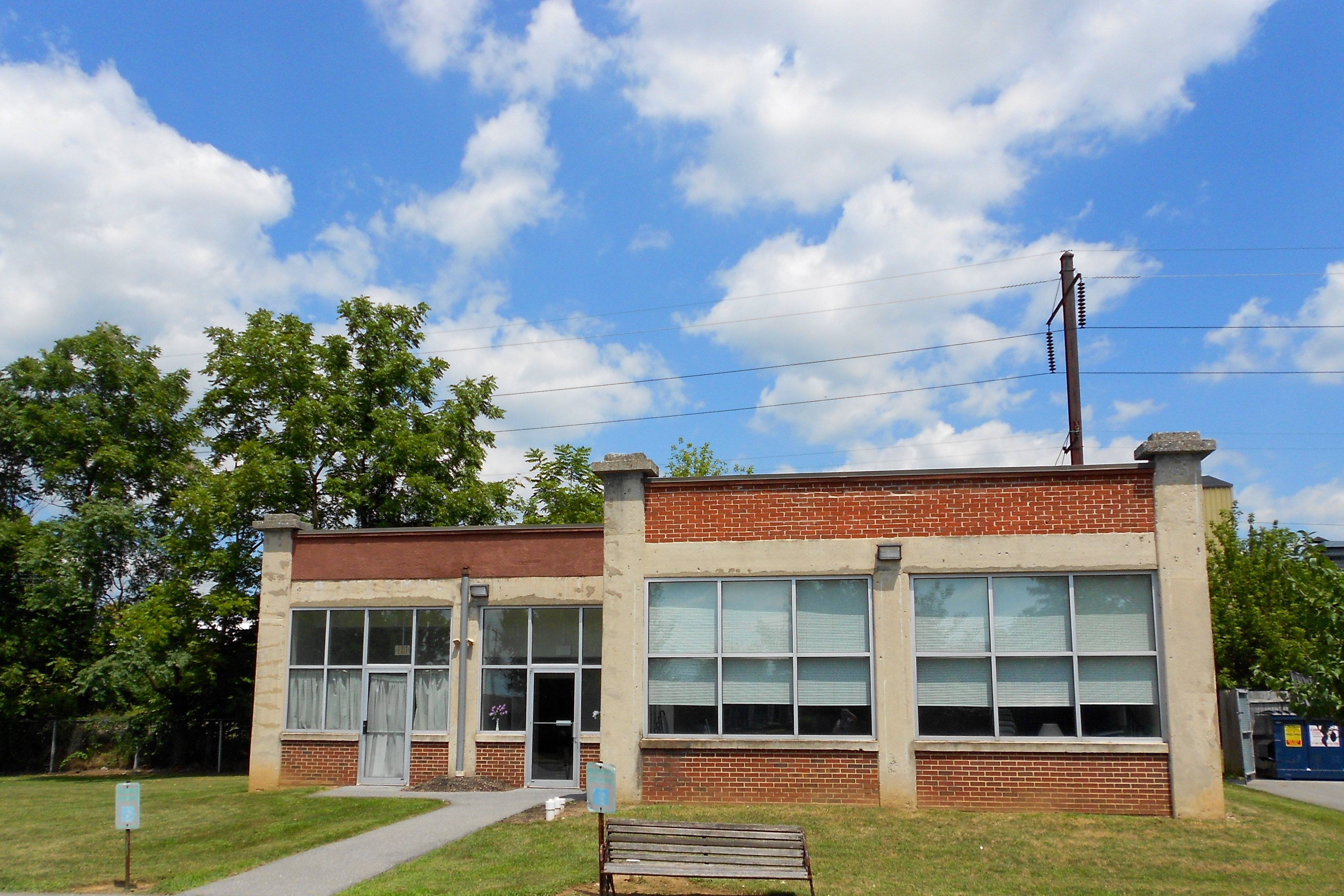 Former Nissly Swiss Chocolate Company building, on the NRHP since June 28, 1996. At 951 Wood Street, near Mount Joy, Lancaster County, Pennsylvania. This is a much smaller contributing structure (office?), done in the same basic style as the main building (factory)